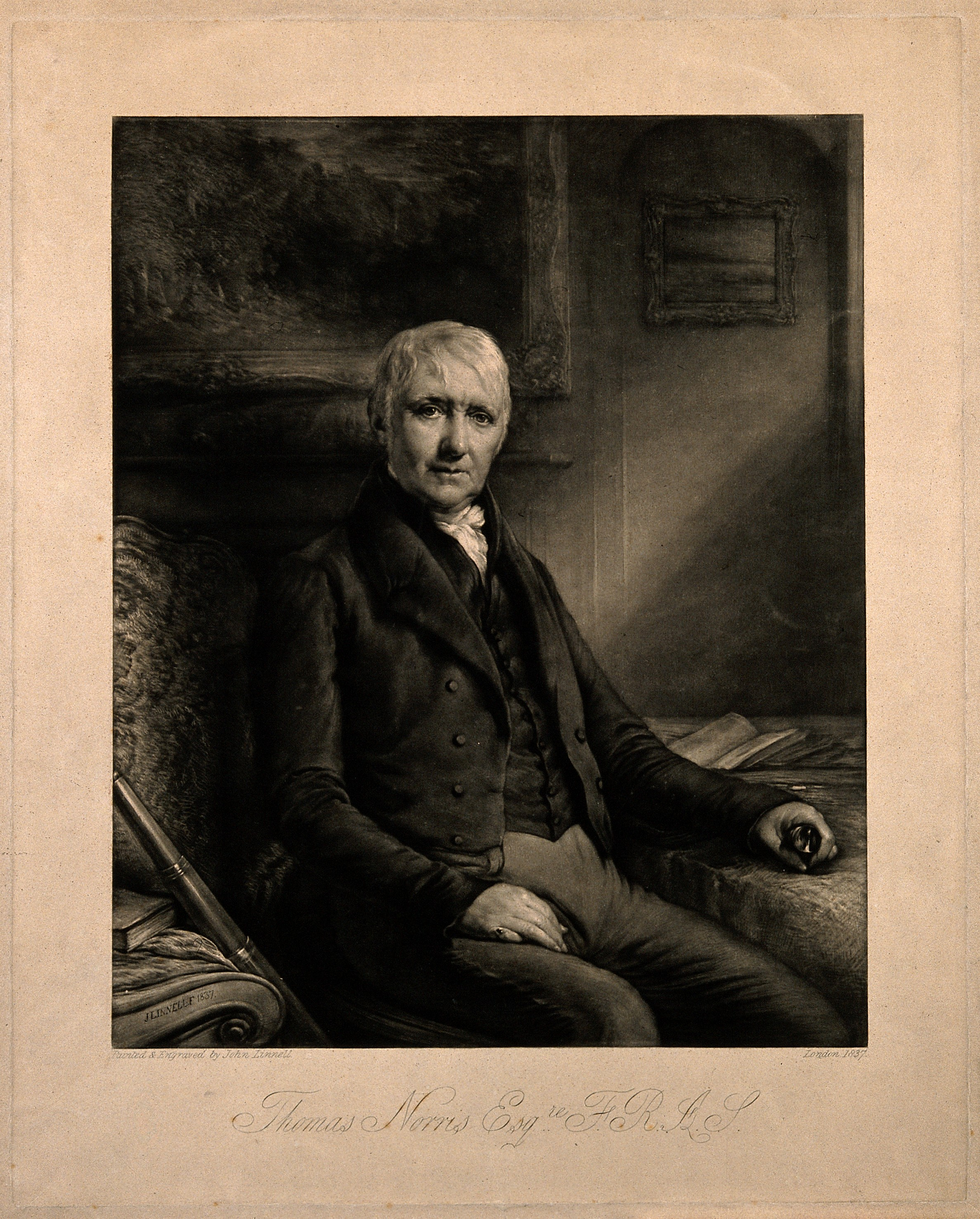 Thomas Norris. Mezzotint by J. Linnell, 1837, after himself. Iconographic Collections Keywords: portrait prints; Thomas Norris; mezzotints; John Linnell